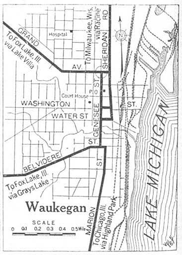 1920 map of Waukegan, Illinois from the Automobile Blue Book.